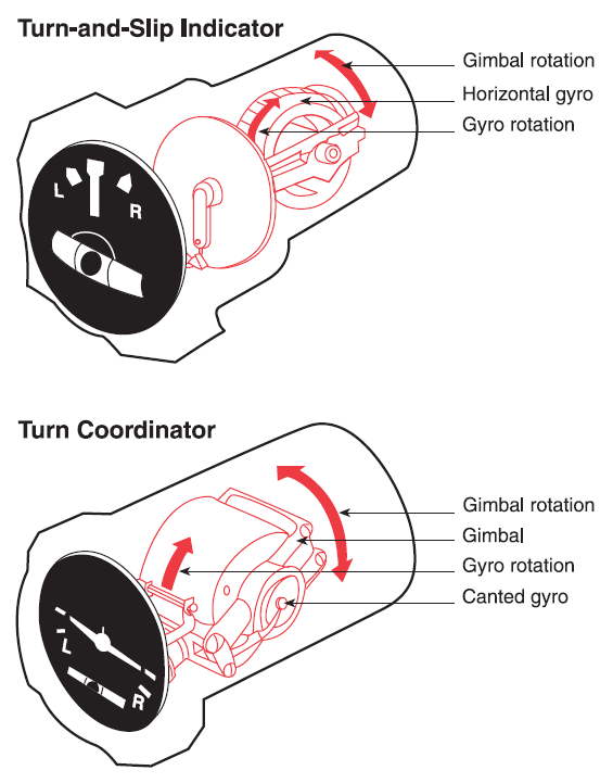 Figure 3-33. The rate gyro in a turn-and-slip indicator and turn coordinator. Source: Instrument Flying Handbook (IFH) FAA-H-8083-15. [Update 25 Nov 05]